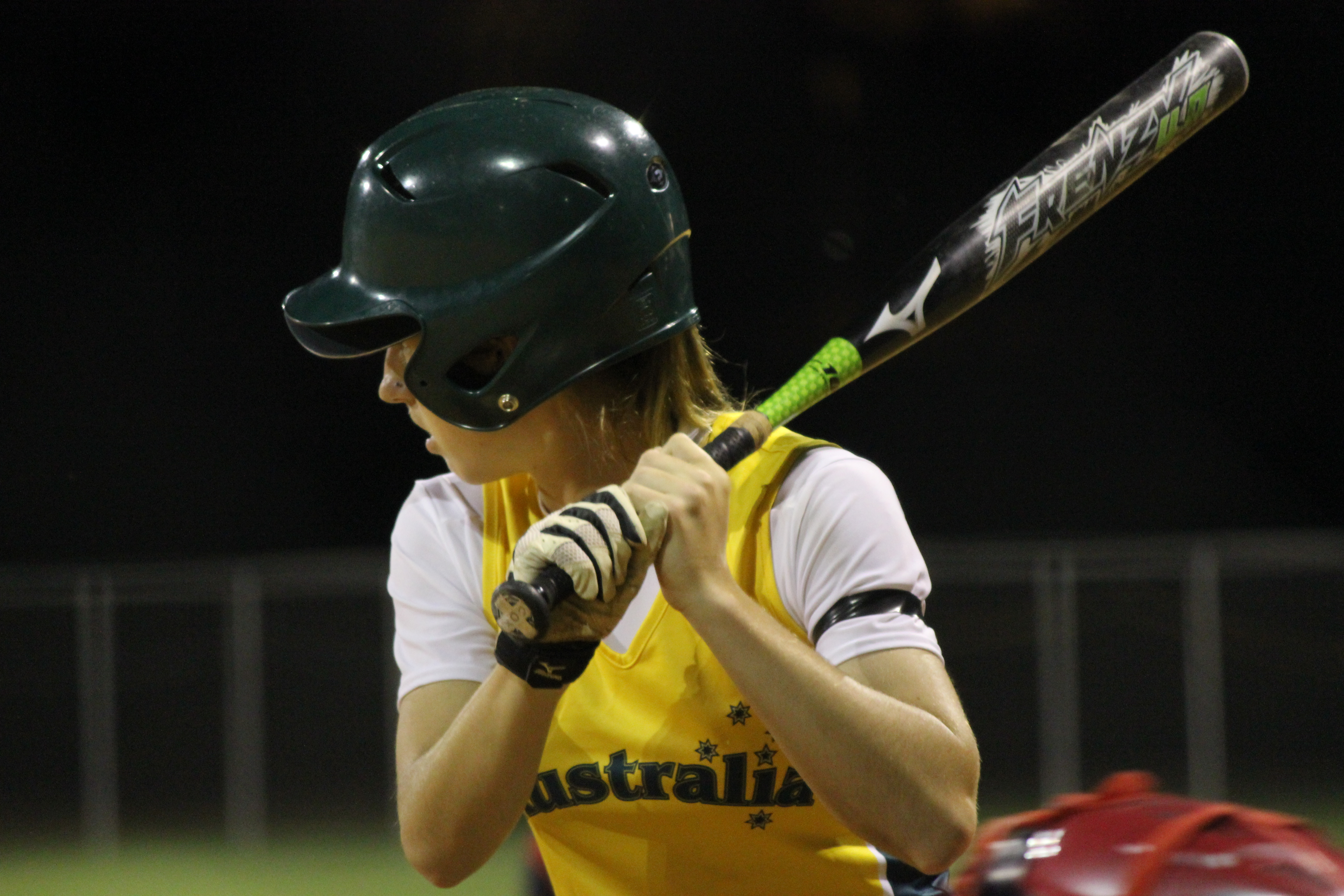 Game two between Australia and Japan on 21 March 2012. no 3 Michelle Cox